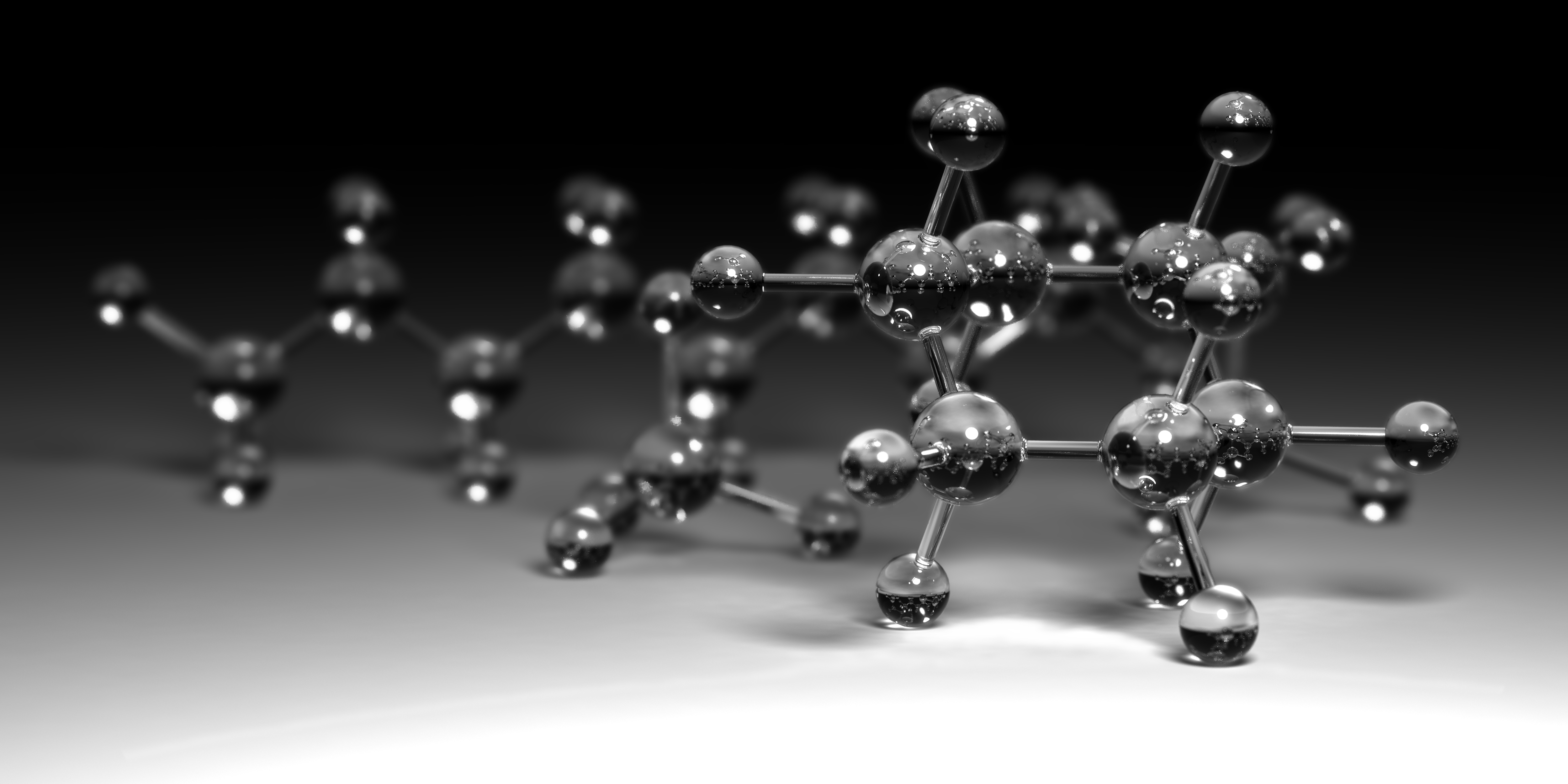 A 3D model of organic molecules created using Rhinoceros 3D and rendered with Vray. The molecules are, from foreground to background: cyclohexane, methane, ethane, and heptane. The ray-tracing depth was set to 9, and caustics are enabled. The index of refraction of the glass material is set to 1.55. Same as File:glass ochem dof.png, except now the focus is on cyclohexane, and the camera is stopped down to f/32 instead of f/11, and the field of view is slightly wider. Render time 6 hours 15 minutes 32 seconds.